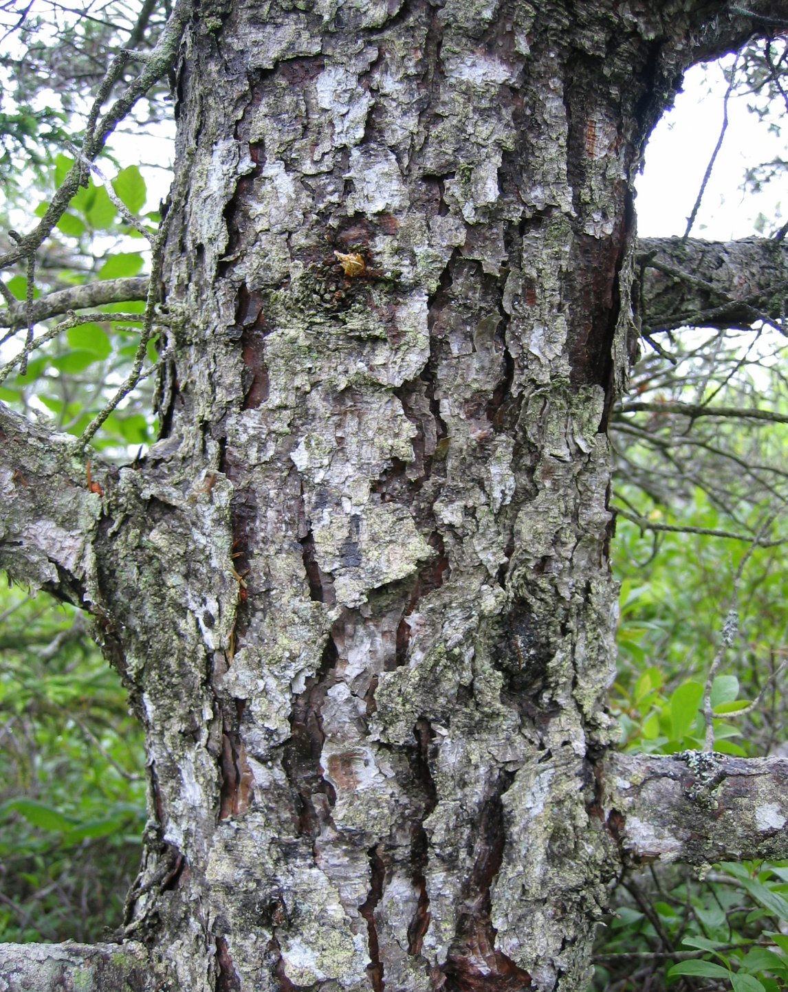 Pinus banksiana bark. Maine.